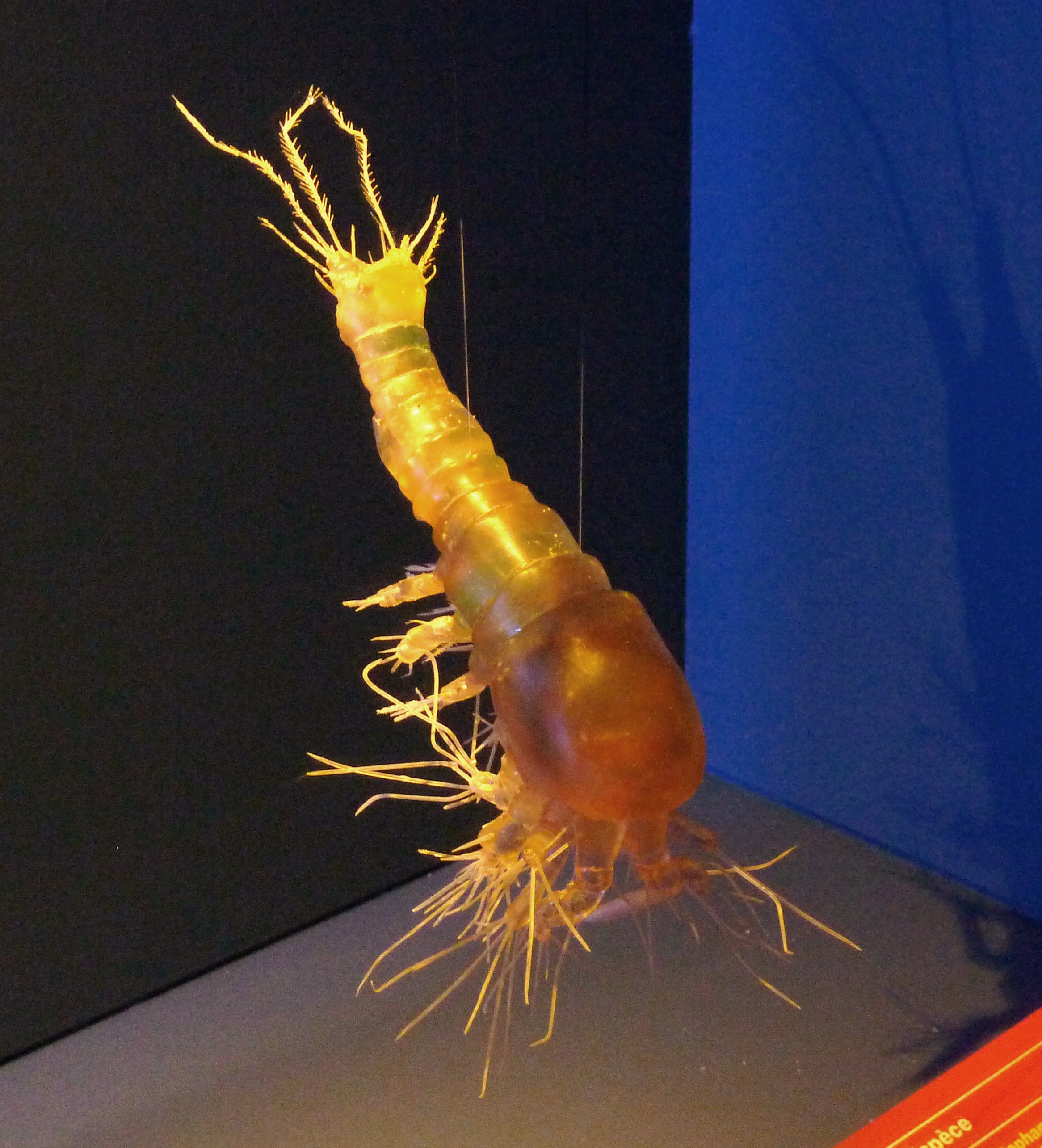 Gelyella monardi reconstitution